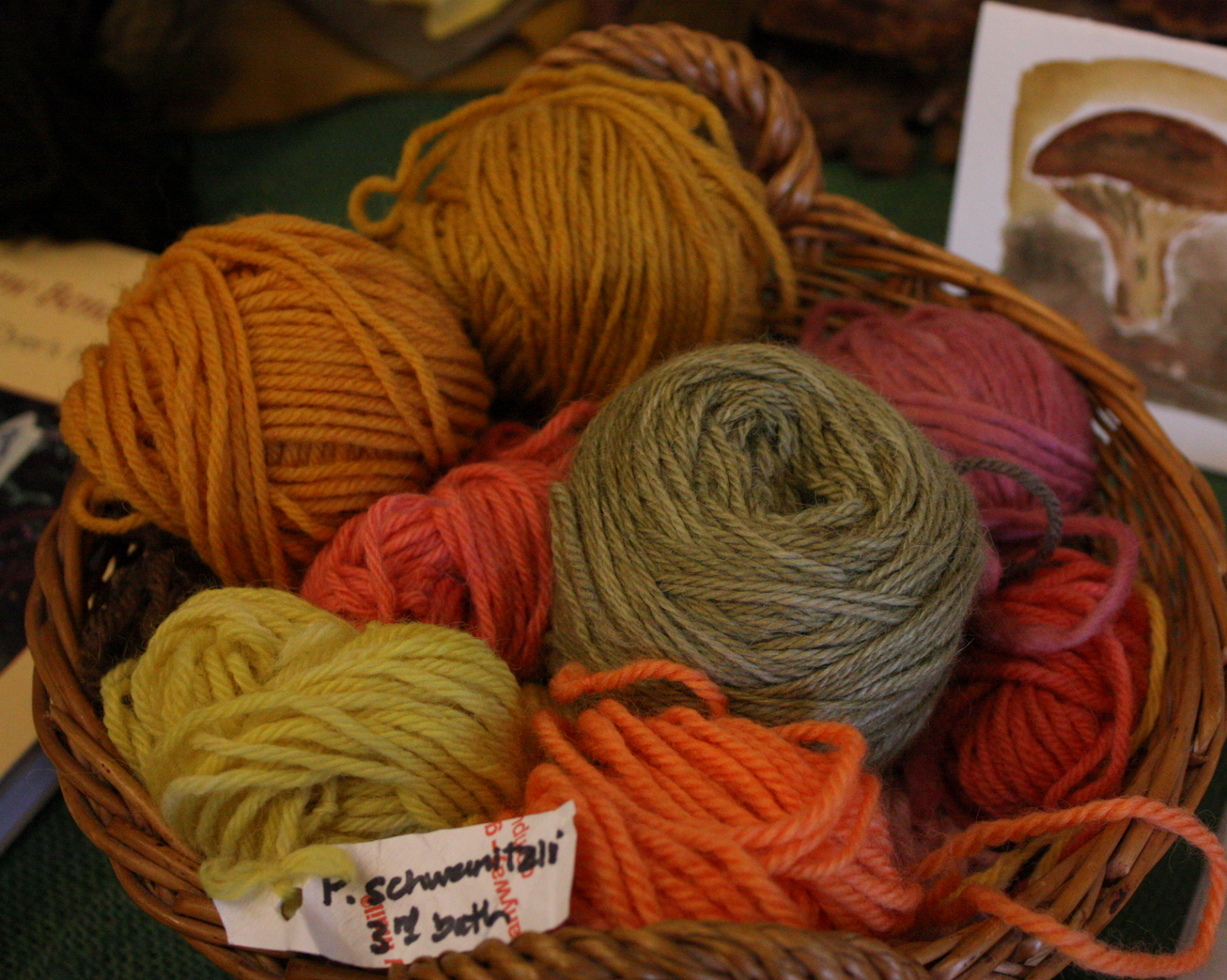 For a closer look at mushroom dyeing, and a workshop to check out, see this post: goo.gl/ZomPSm See more mushroom events in the Seattle area here